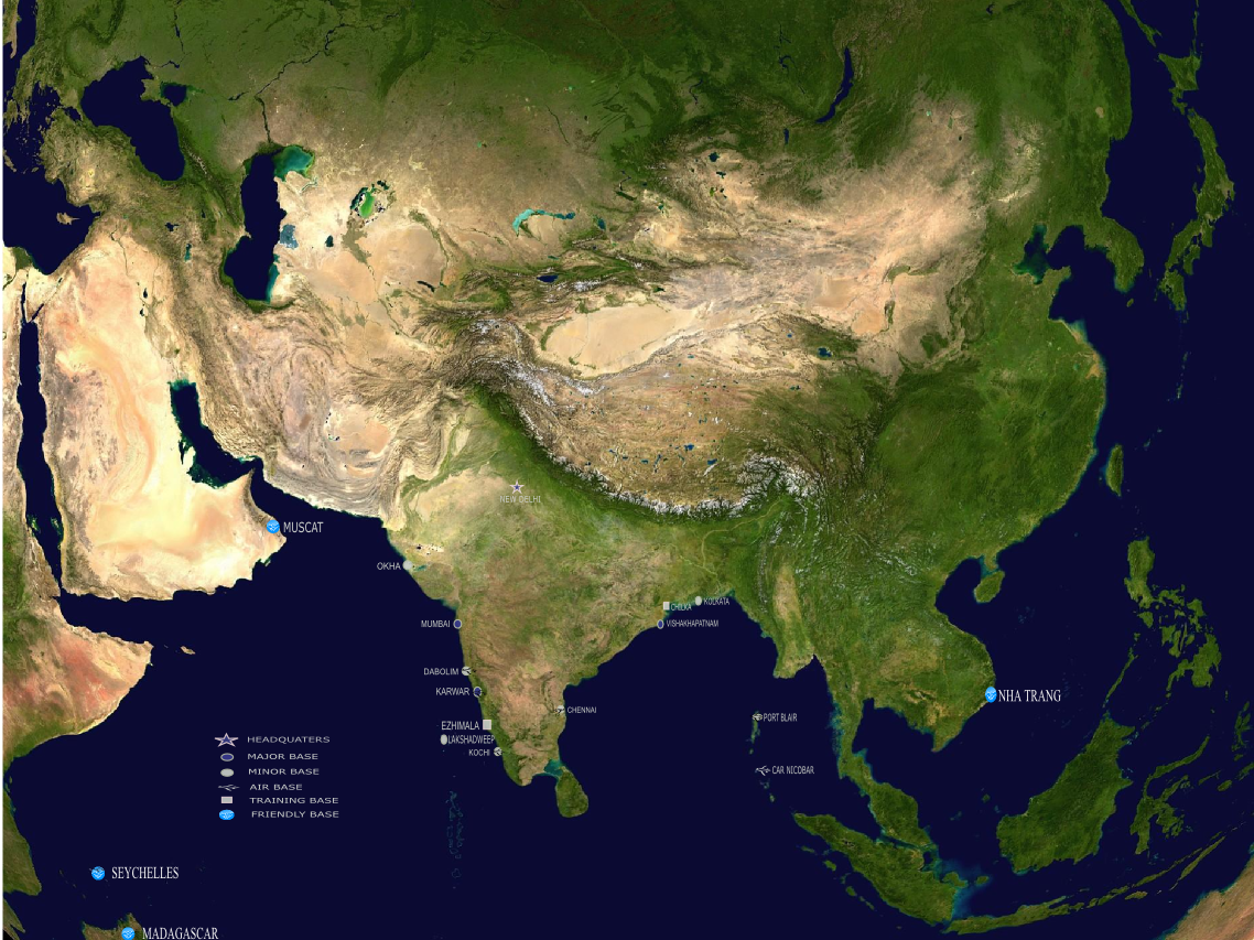 Indian Naval bases.